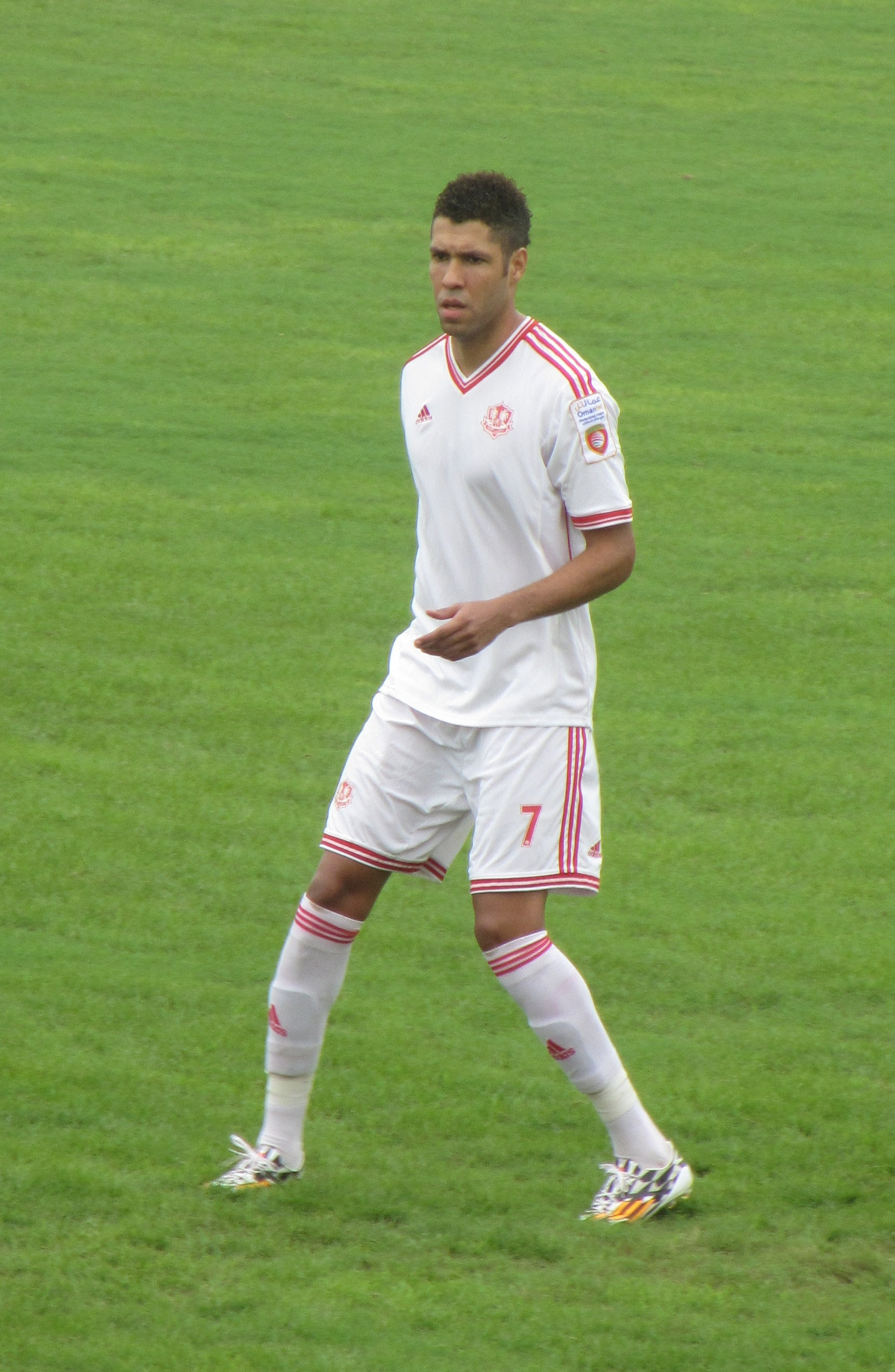 Fernando Lopes Alcântara playing for Dhofar in a friendly match against Oman National Army Football Team. The match was won 1-0 by Oman Army. Al Saada Stadium Salalah 17 August 2014 Photographer email id